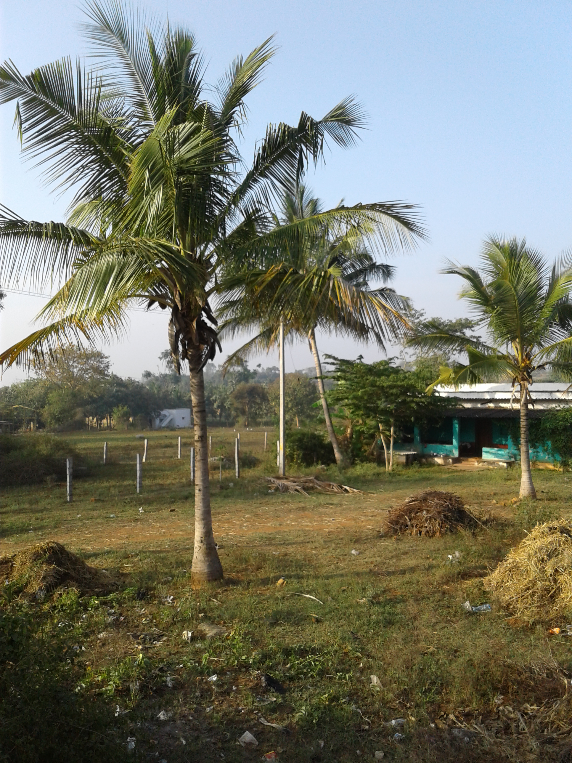 Varuna Choranahalli Village, near Alanahalli, Bannur Road, Mysore, Karnataka state, India.